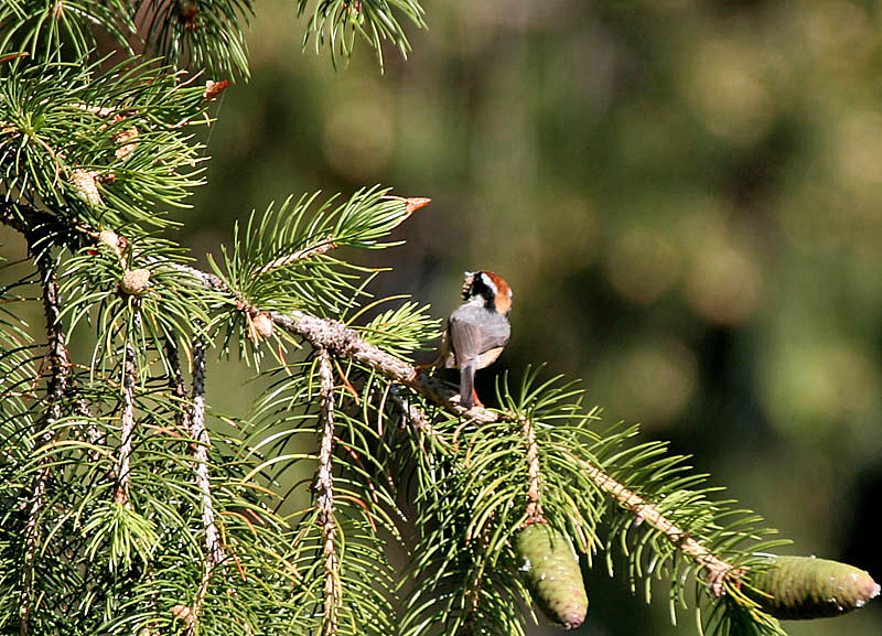 Black-throated Tit Aegithalos concinnus on Morinda Spruce Picea smithiana carrying food for chicks in Kullu District of Himachal Pradesh, India. Taken at Guna Pani (2590 m) on 7/5/07 in Himachal during Sar Pass Trek. One can see the male (left) & immature female (right) cones of the tree in the picture. This Tit is very sociable, restless & fussy, invariably found in flocks with other birds like leaf warblers, tree creepers, other Tits, White eyes etc. Mainly eats insects, but also tiny seeds & fruits.